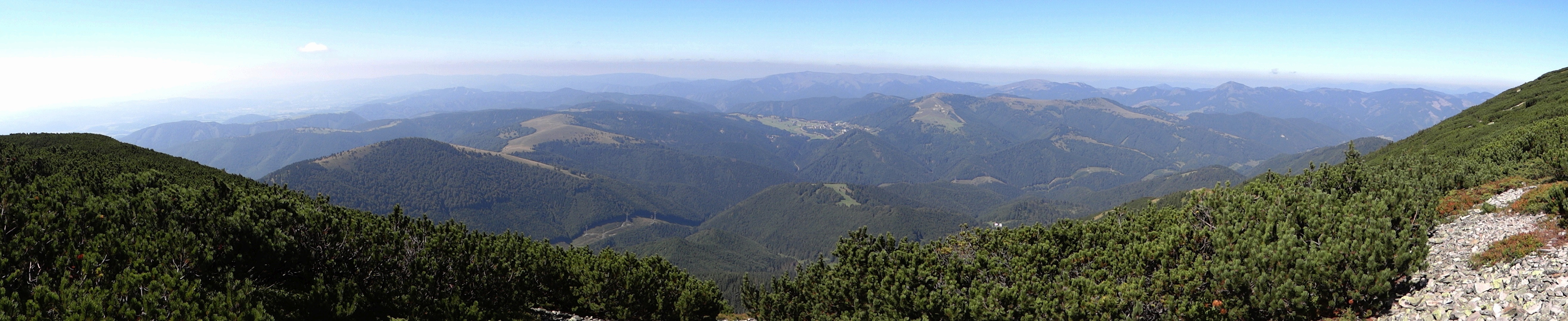 View from Prašivá